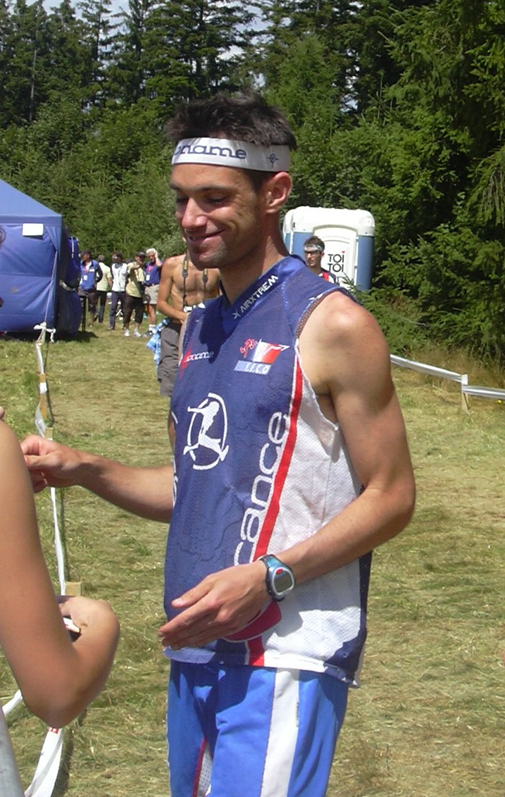 World Orienteering Championships 2008 in Olomouc, Czech Republic. On photo François Gonon.